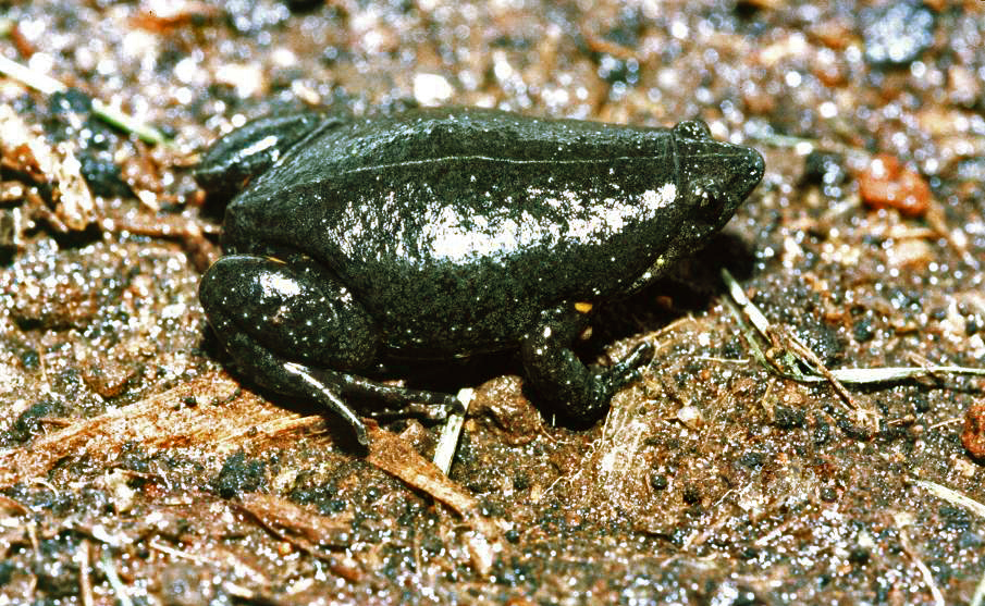 Elachistocleis ovalis